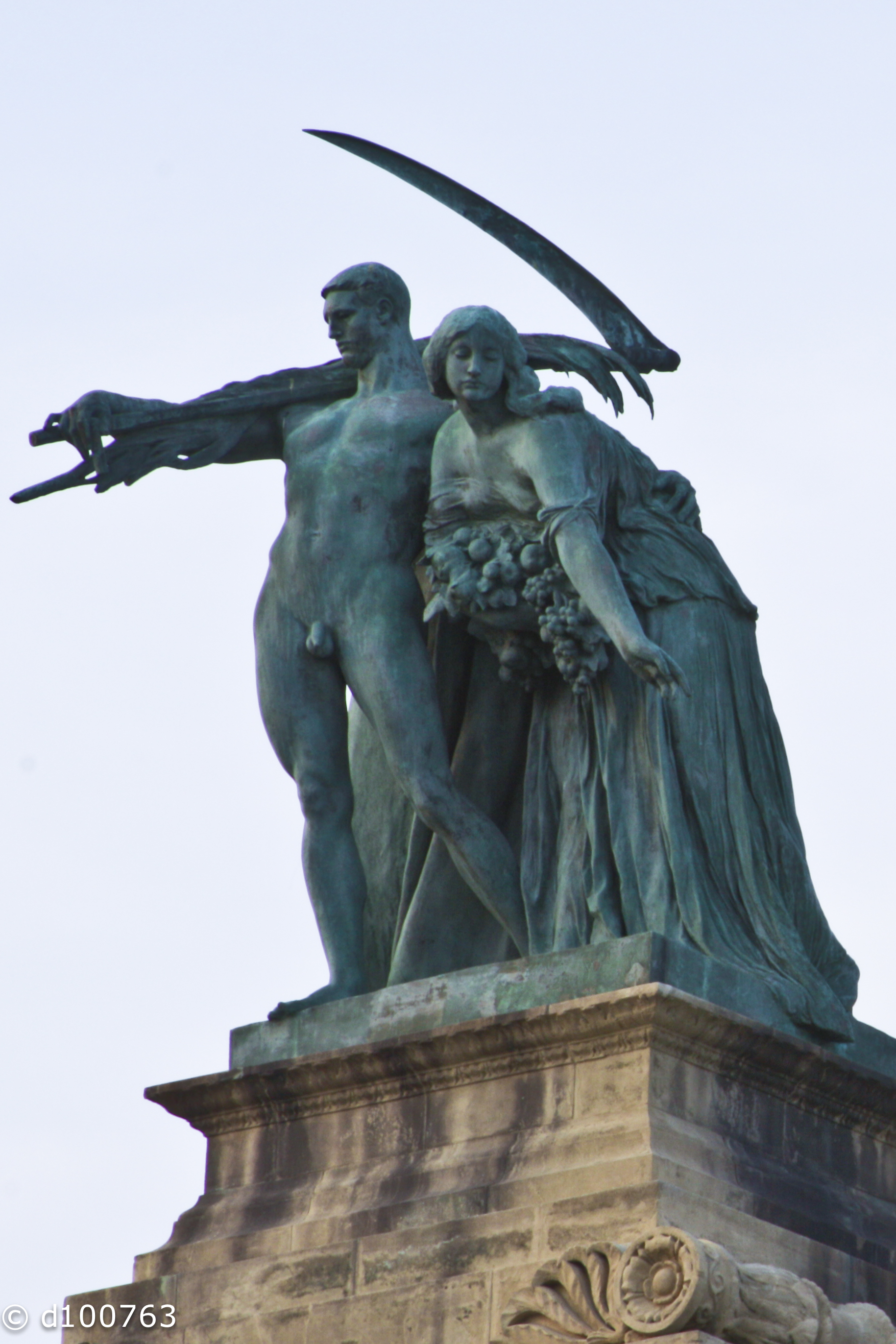 Allegorical figure of work and well-being (Munka és Jólét)